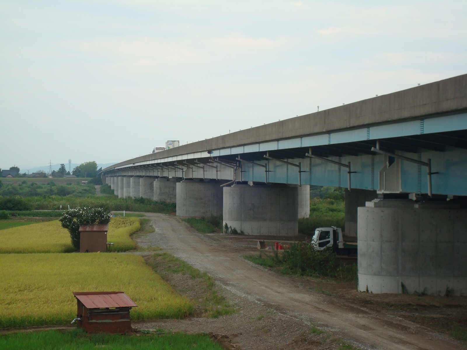 Shinanogawa Bridge (Hokuriku Expressway)